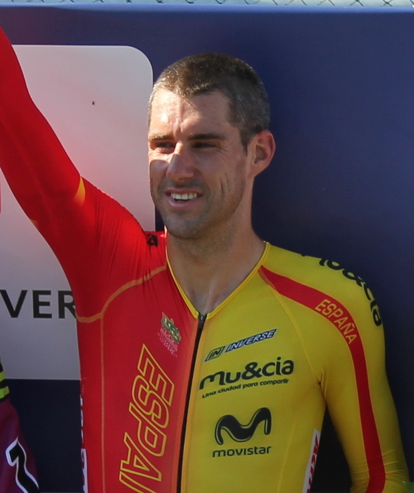 UEC Derny European Championship 2015 - Finals place 10 - 18, 90 laps / 30 km, f.l.t.r. Peter Bäuerlein (Germany), David Muntaner (Spain)